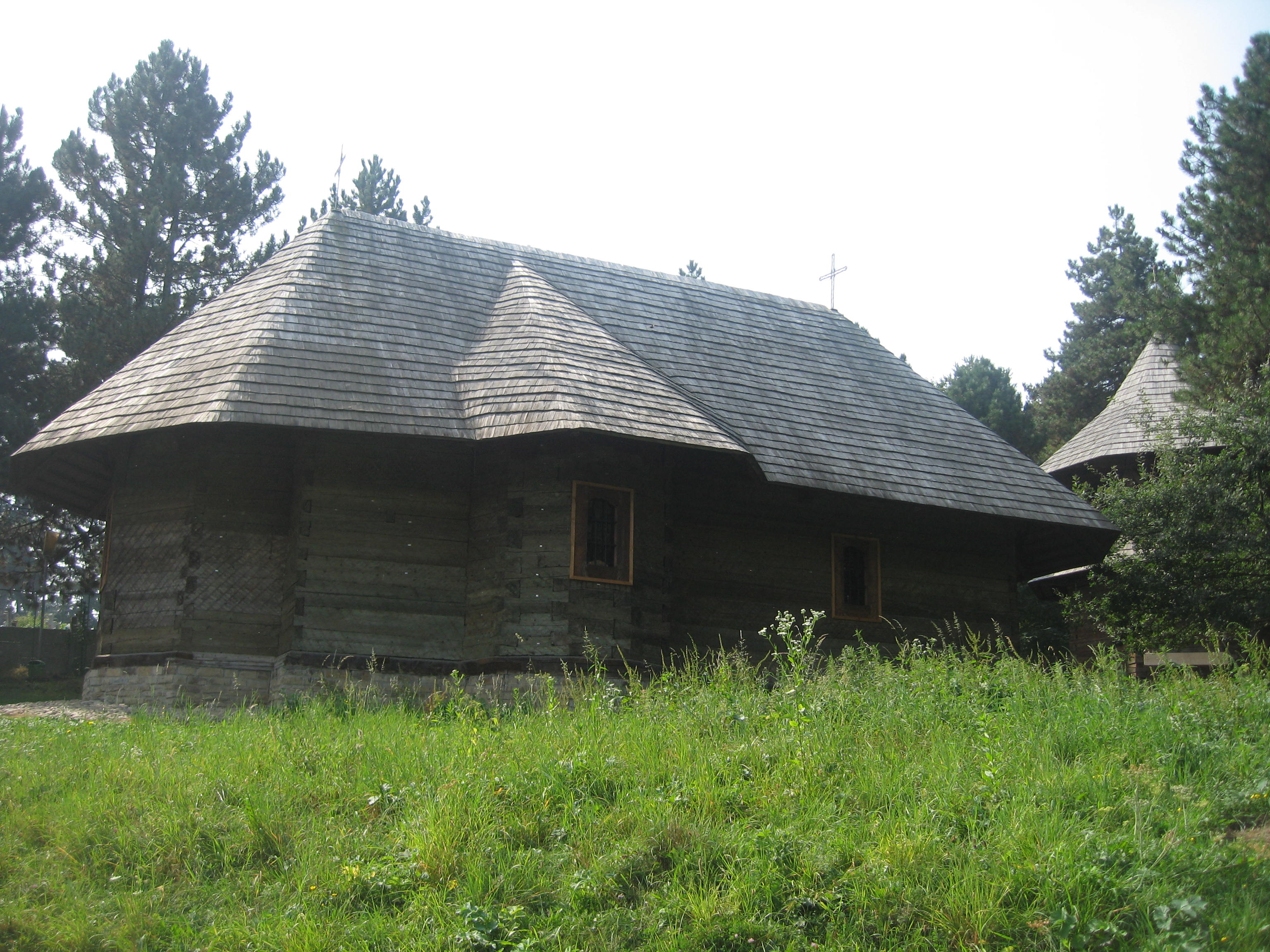 Bukovina Village Museum - Ascension Wooden Church from Vama.